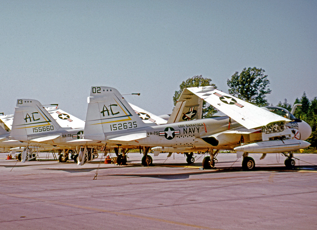 Grumman A-6A Intruder 152635 of Attack Squadron VA-75 at NAS Oceana in 1973